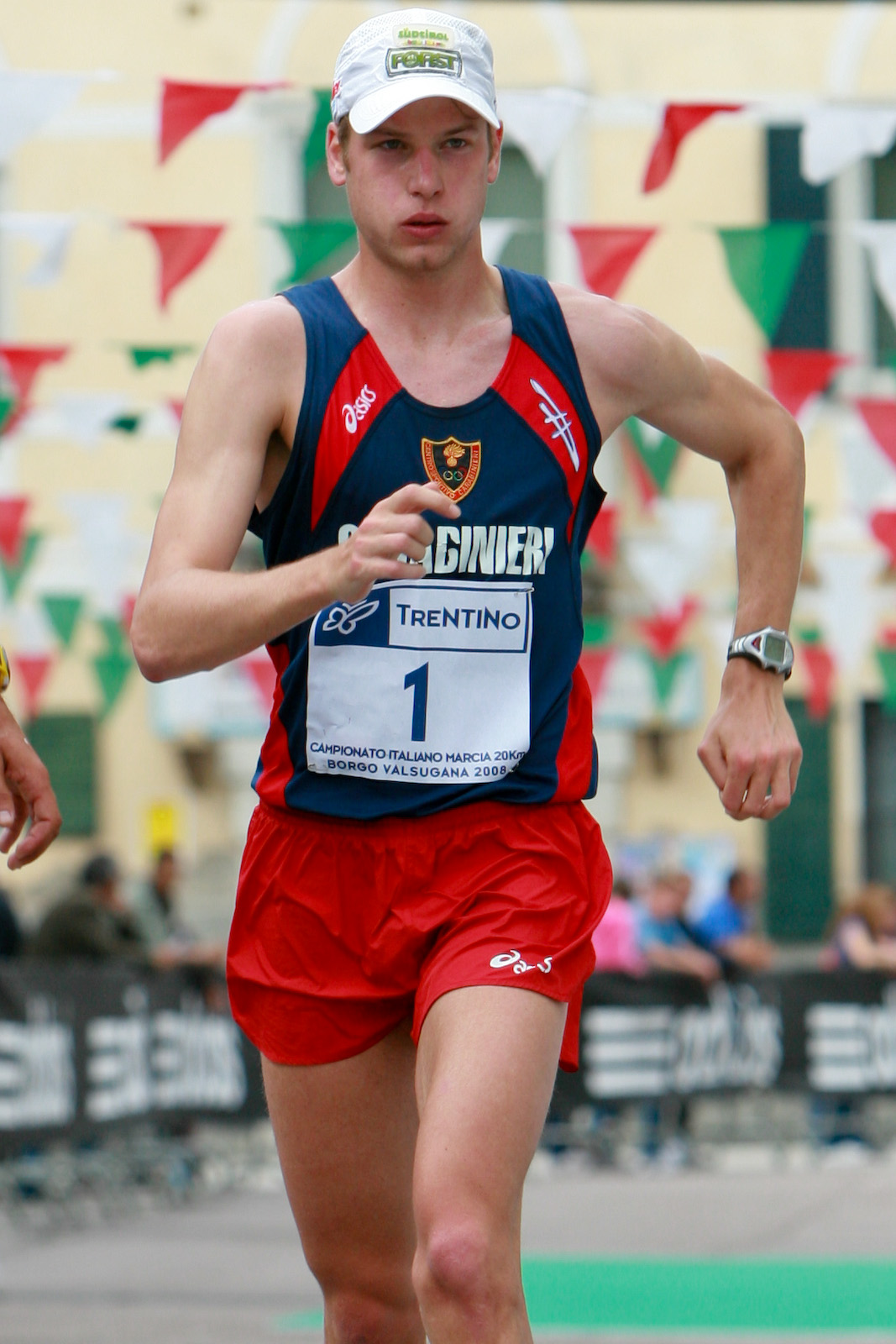 Alex Schwazer in action during the 20km racewalking italian championship in Borgo Valsugana